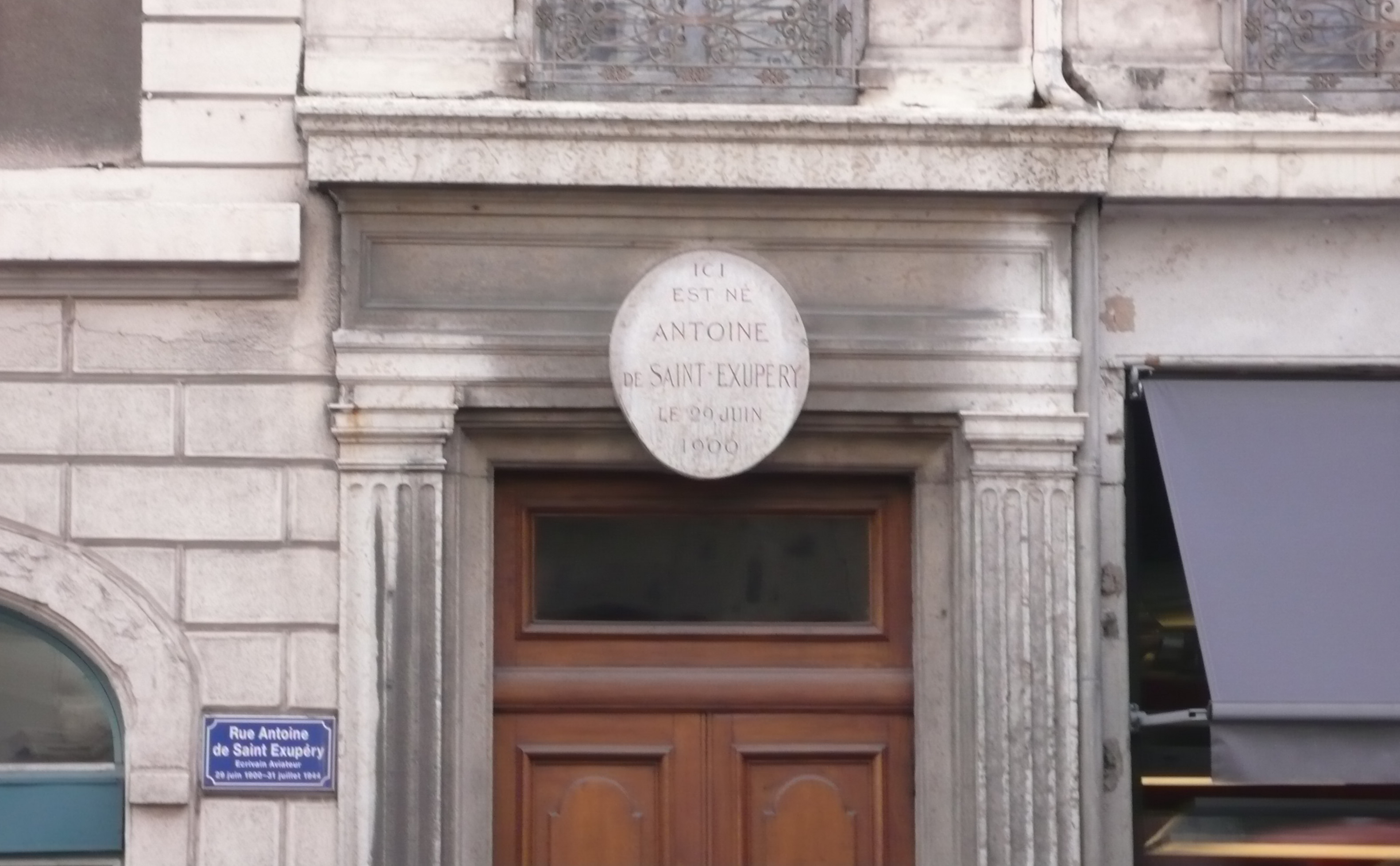 Birthplace of Antoine de Saint-Exupéry, in the street that now bears his name (F-69002, Lyon).